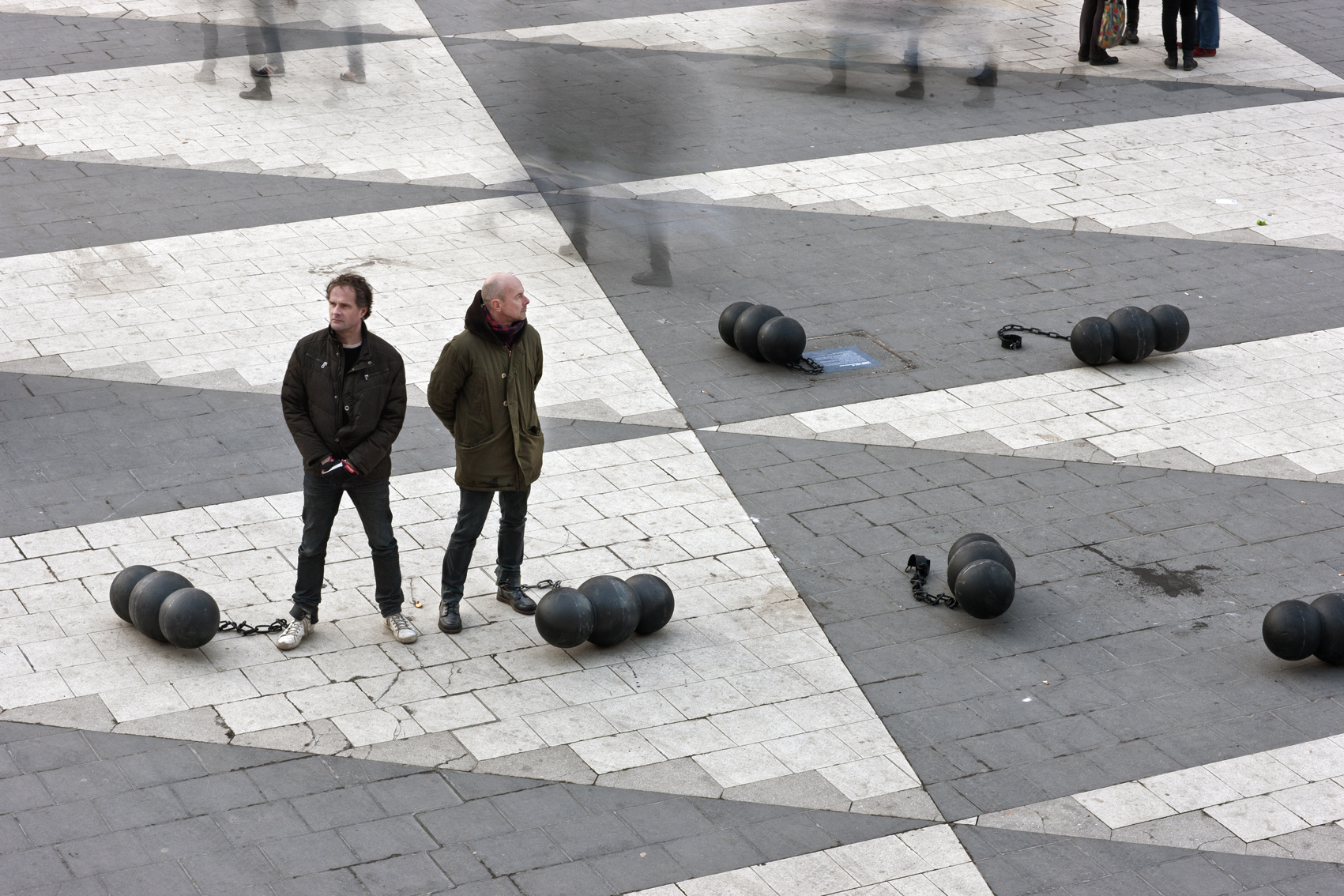 Co2 lock in, 2012, Bigert & Bergström på Sergelstorg, Stockholm